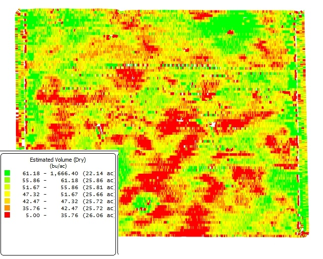 This is a yield map of a soybean field generated by Ag Leader SMS software.